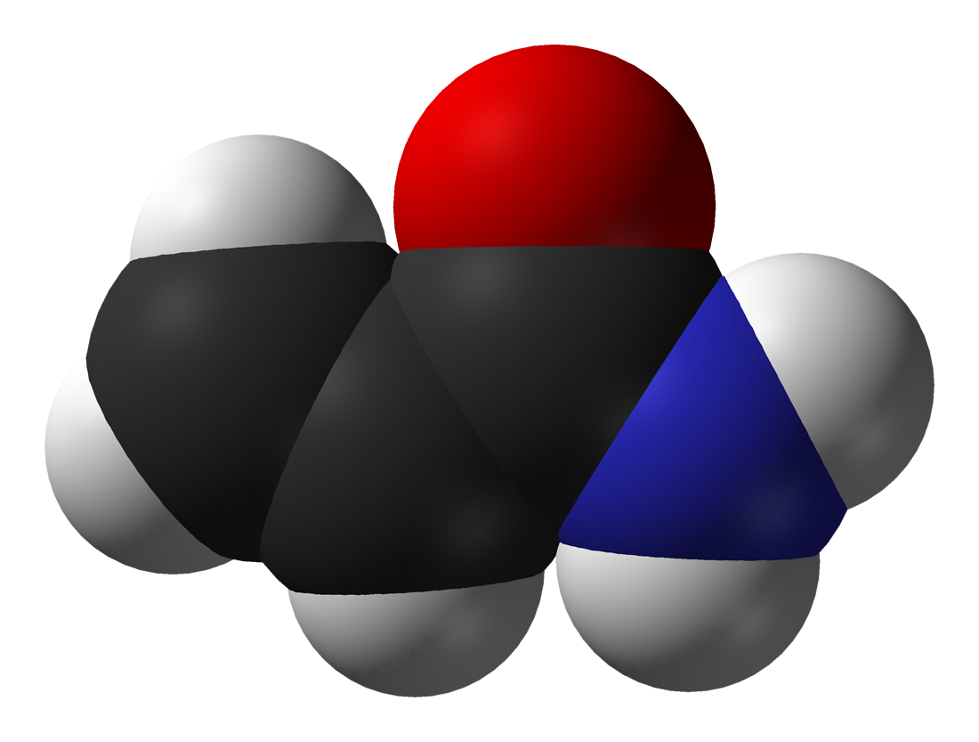 Space-filling model of the acrylamide molecule, C3H5NO. Structural information (determined by microwave spectroscopy) from J. Mol. Struct. (2000) 524, 69-85. Image generated in Accelrys DS Visualizer.